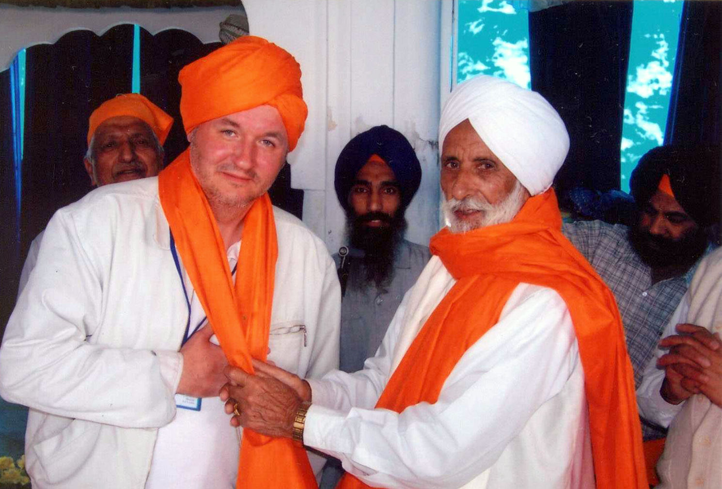 Polish author and journalist at the Writers Festival - India 2006 (Paonta Sahib)